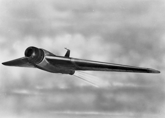 Artist's concept of the Northrop JB-10 "Bat" pulsejet-powered cruise missile.